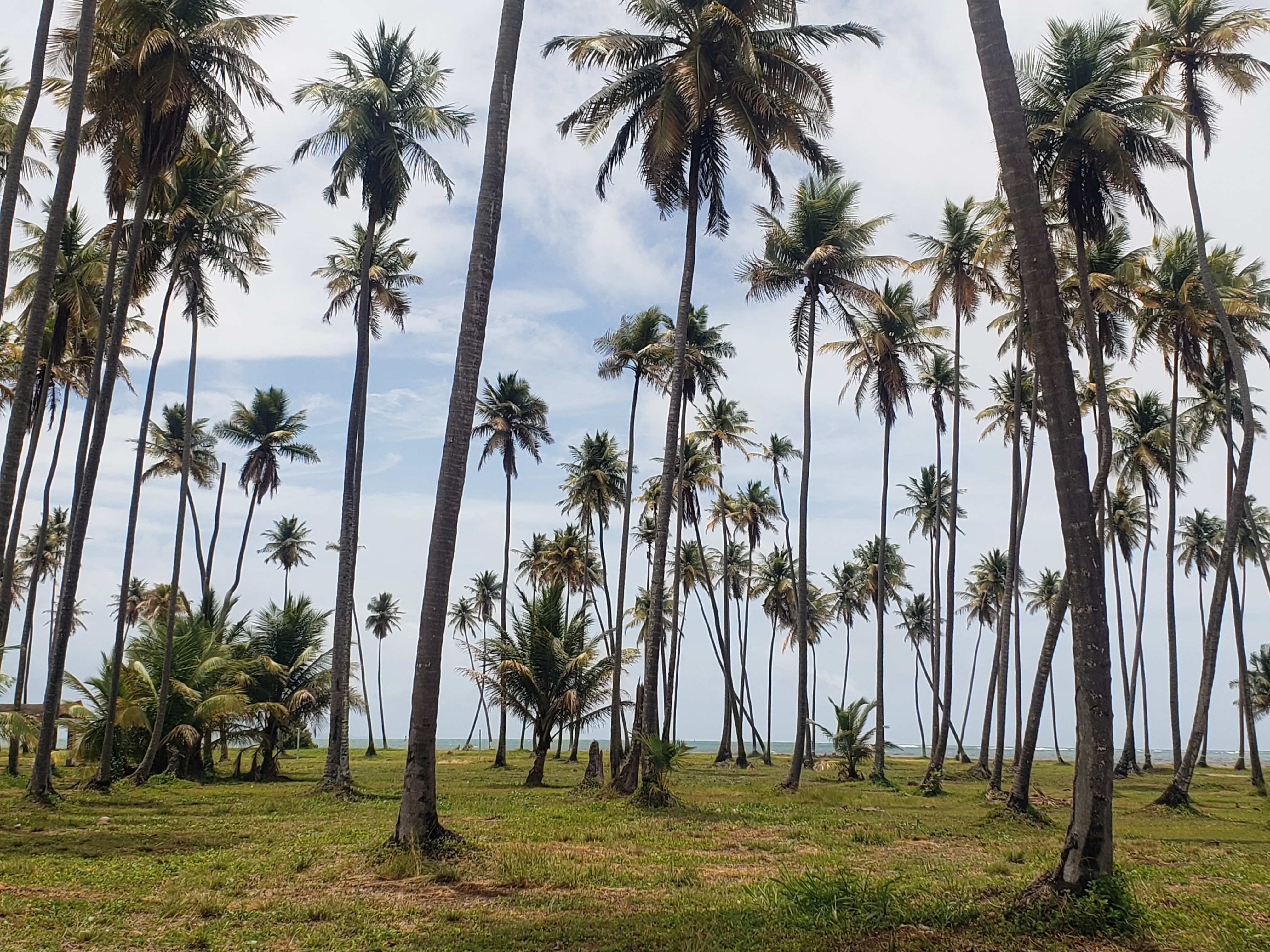 Palm trees at Playa Lucia in Yabucoa, Puerto Rico